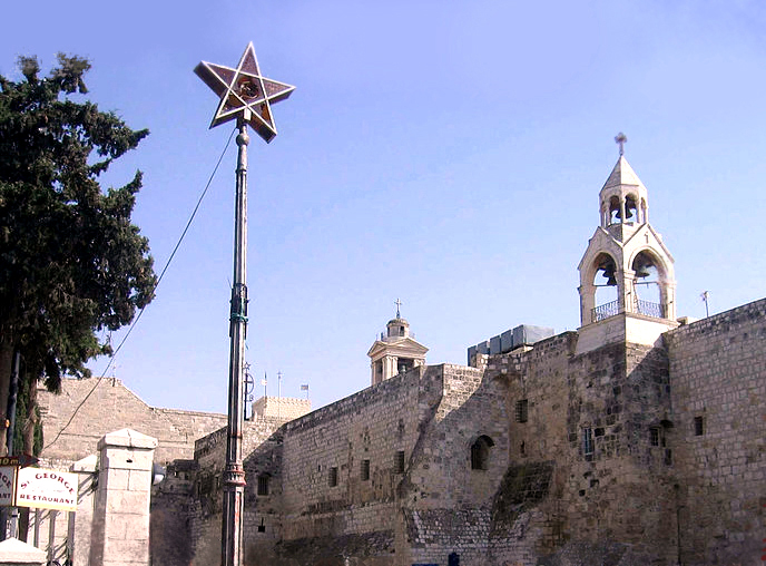 Church of the Nativity (Bethlehem), basilika of Nativity in Holy Land, outside.